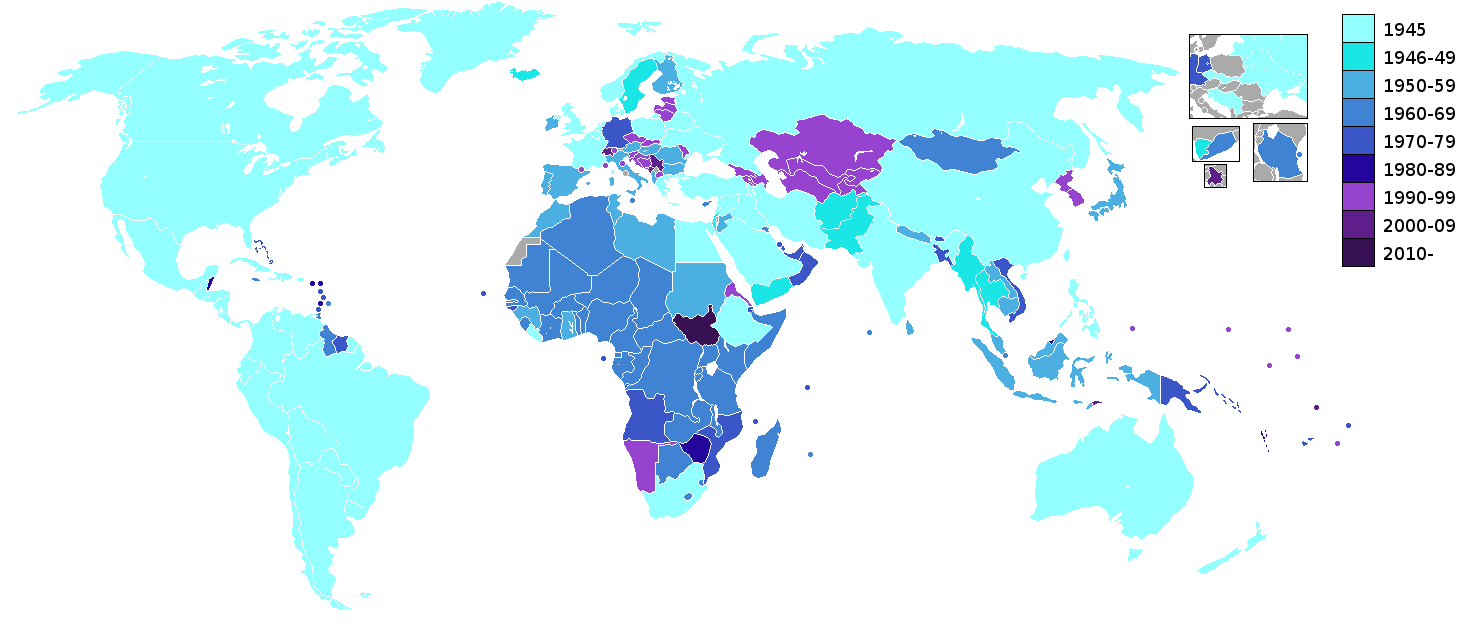 At the top right is an inset map showing Cold War countries - USSR, Yugoslavia, Czechoslovakia, East Germany and West Germany. Also shown are North Yemen and South Yemen, and Tanganyika and Zanzibar. Note: On the site, Russia, Belarus and Ukraine are given a 1945 date for joining, with the other former-Soviet republics given a 1990s date. China is given a 1945 date for joining, when they were represented by the Republic of China (which later relocated to Taiwan in 1949), and was replaced by the People's Republic of China as China's representative in 1971 (see China and the United Nations). All areas listed in gray are not UN members.